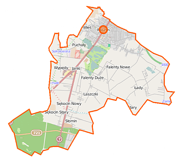 Map of Gmina Raszyn, Poland This map of Raszyn (gmina) was created from OpenStreetMap project data, collected by the community. This map may be incomplete, and may contain errors. Don't rely solely on it for navigation. Border coordinates52.175020.8301←↕→20.993252.0837